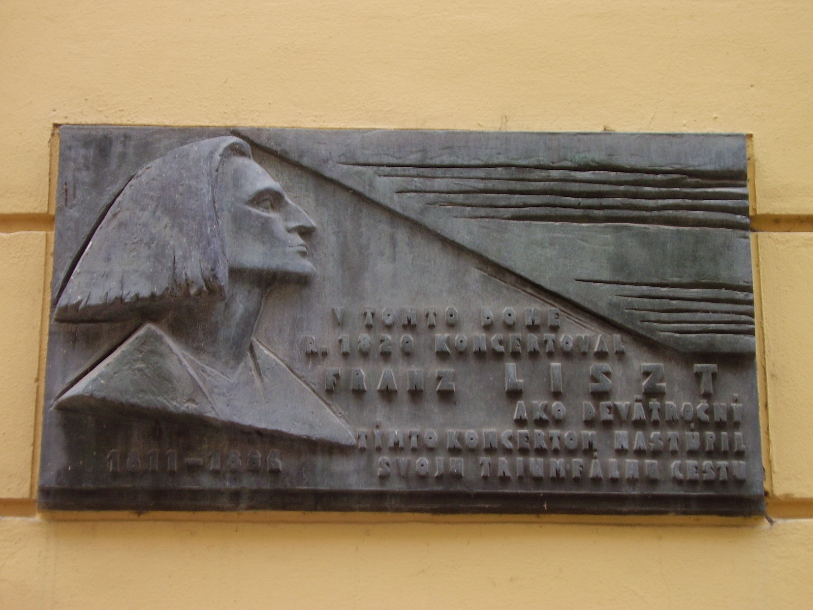 Bratislava city centre. Autorom pamätnej tabule je sochár Pavol Chrťan